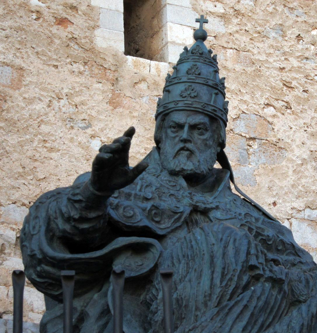 Statue of Benedictus XIII (antipope) in Peñíscola (Castellón, Land of Valencia). Made of bronze by the sculptor Sergio Blanco, it reproduces the image of the pope with his tiara. This statue was inagurated in 2007.